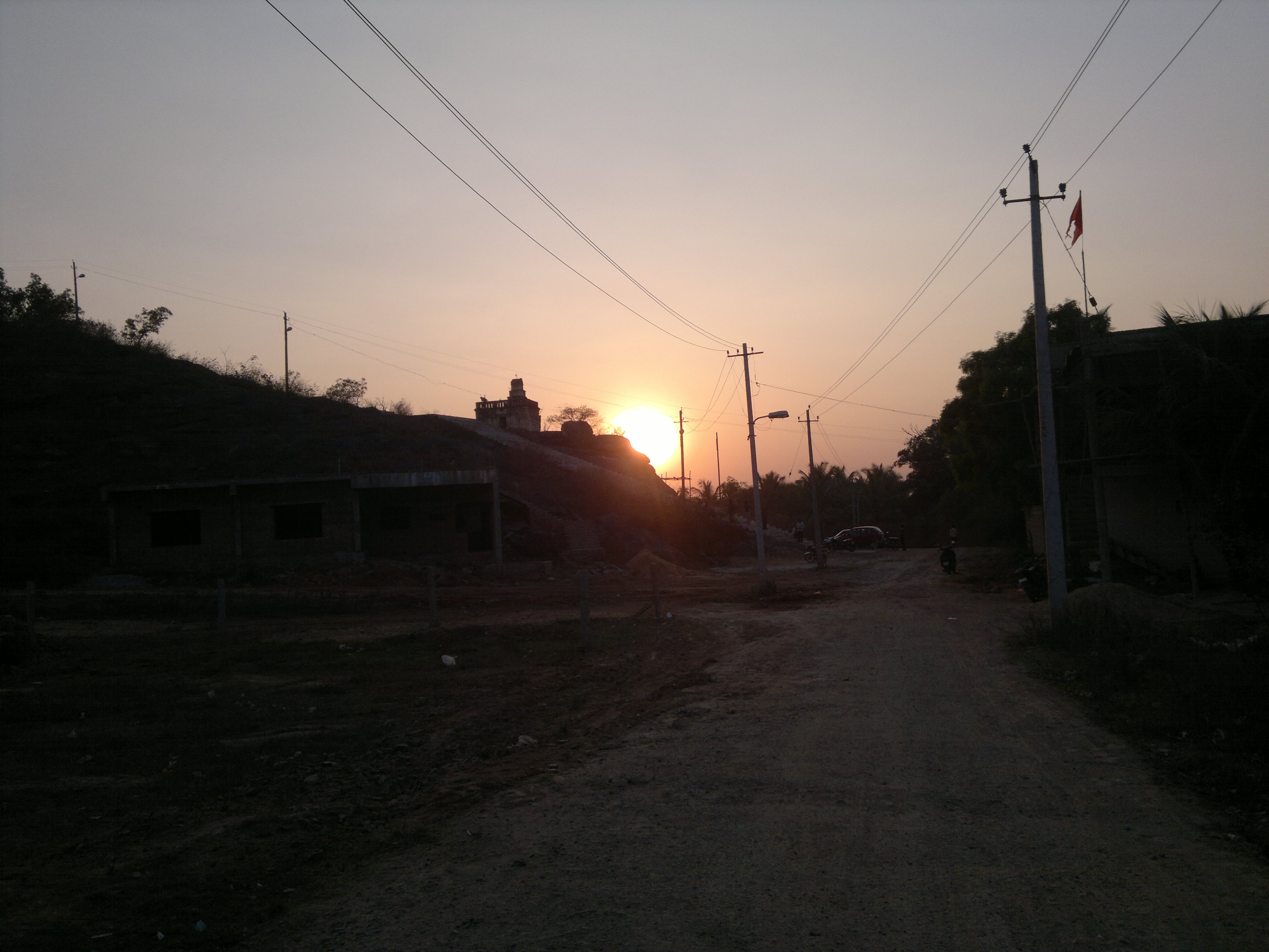 This photo was taken during sunset near Gudde Mardi